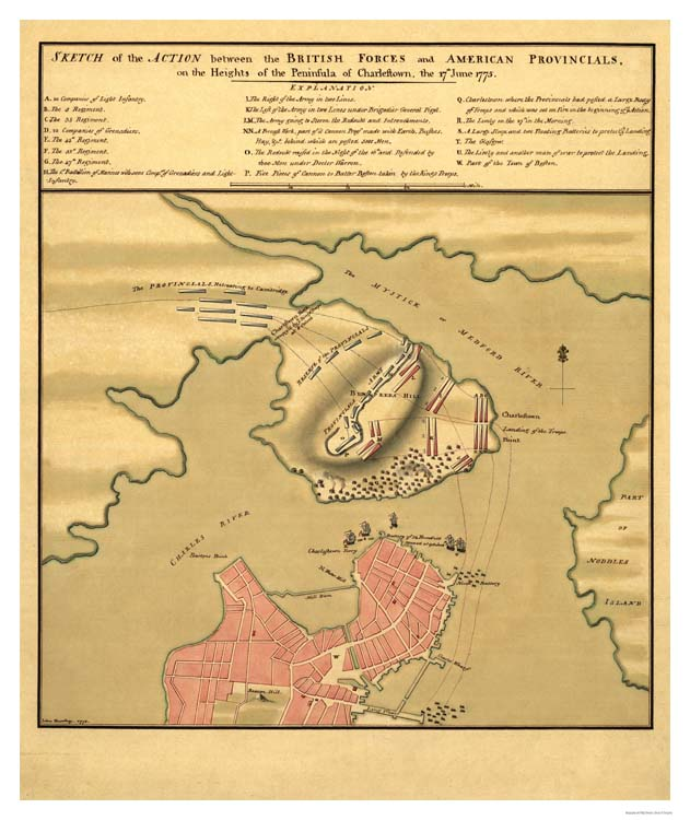 Charlestown Battle Map